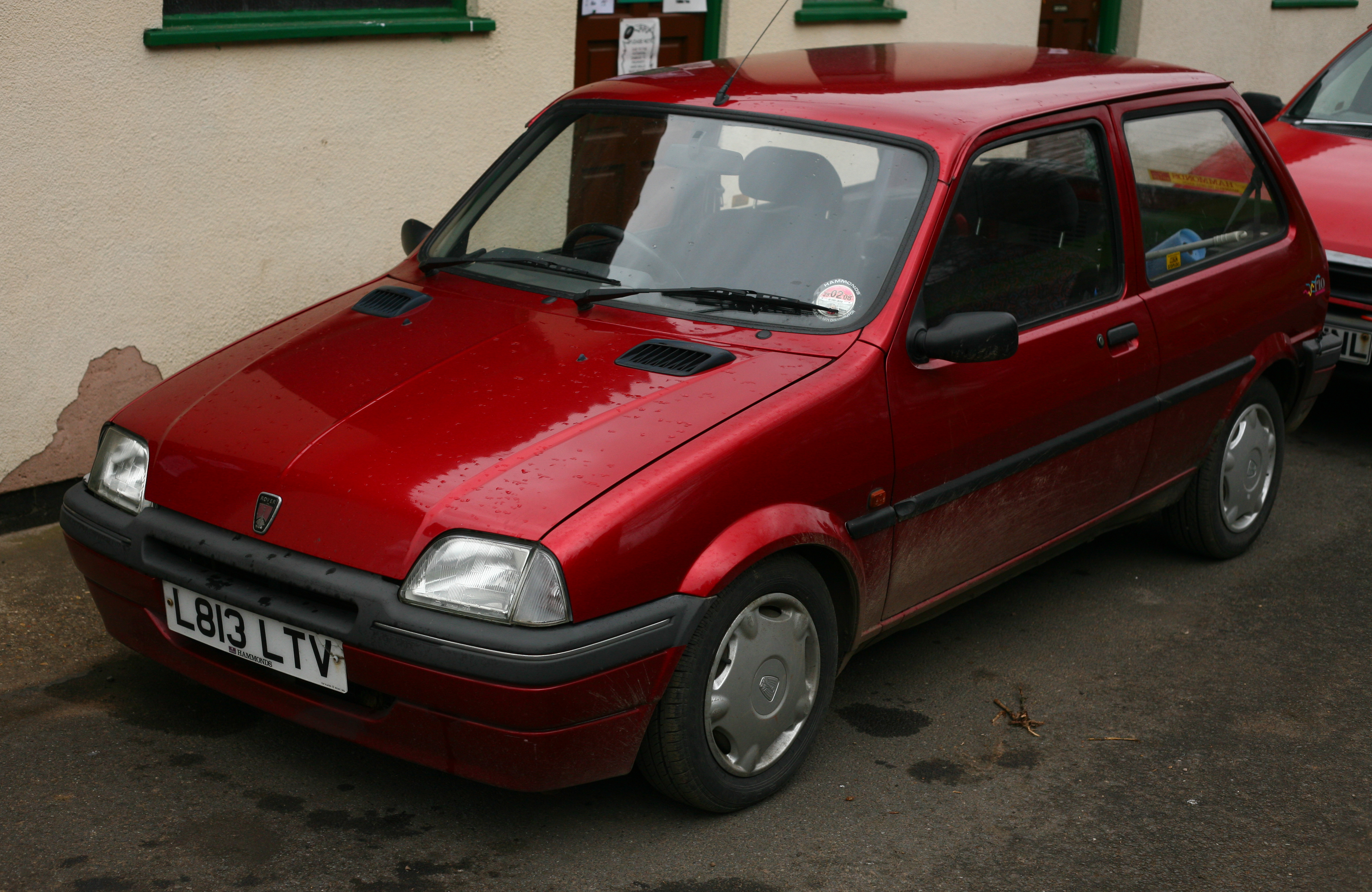 A Rover Metro Rio (called the Rover 100 series outside UK) with a 1360cc diesel engine. Registred in September 1993.